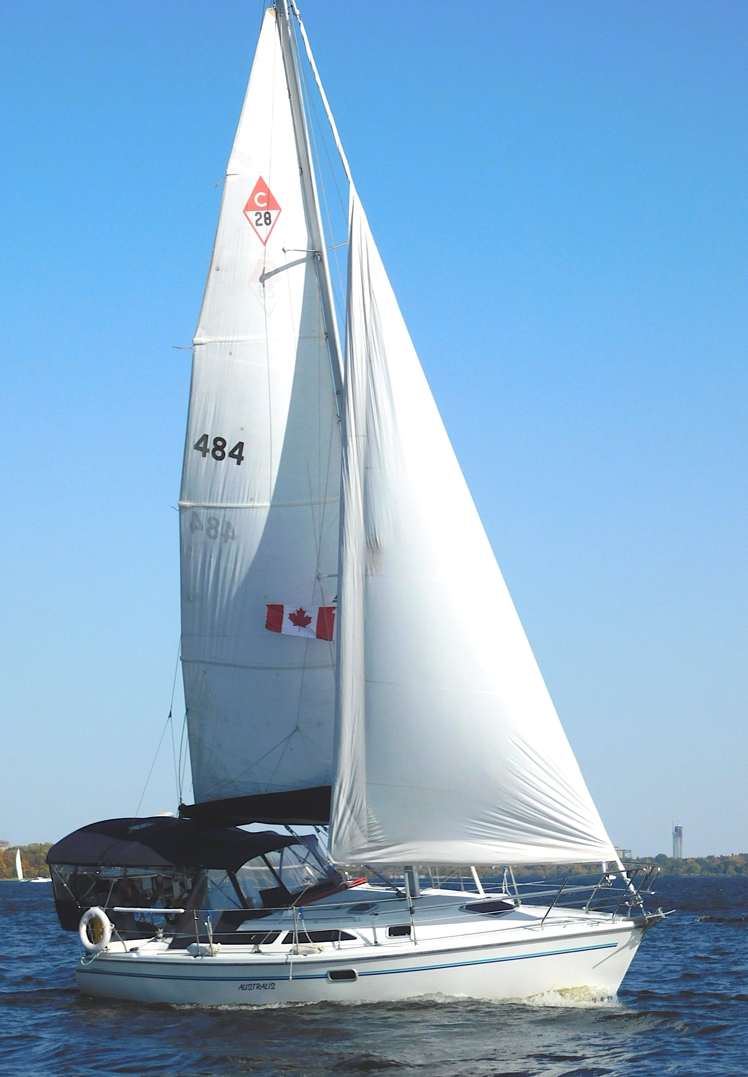 A Catalina 28 Mk II sailboat named Australis.